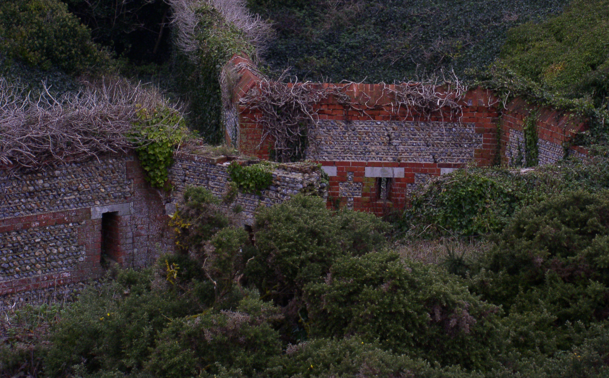 Picture of one of the bastions of Littlehampton fort, Sussex, UK.